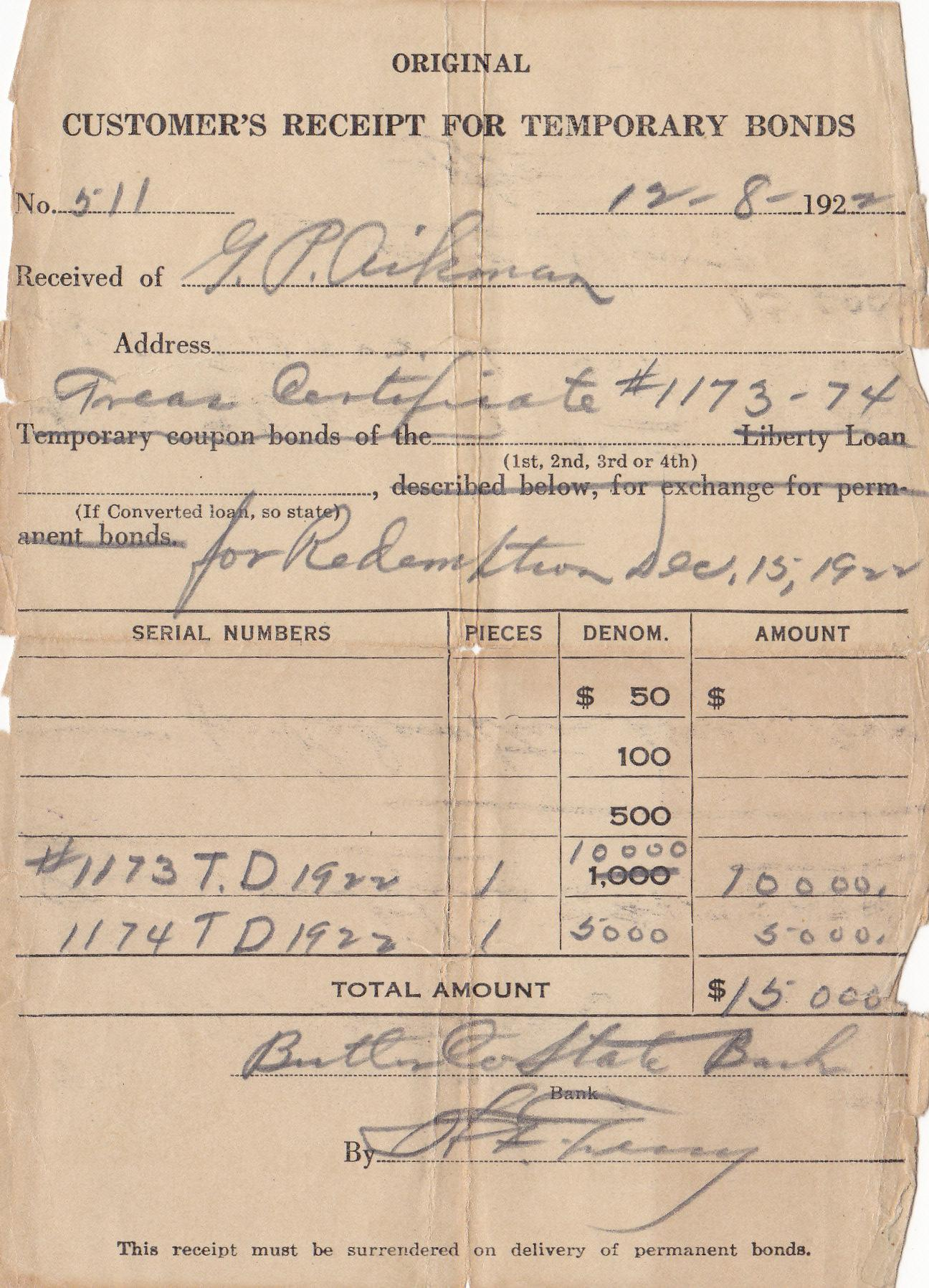 A receipt issued for purchase of temporary financial bonds